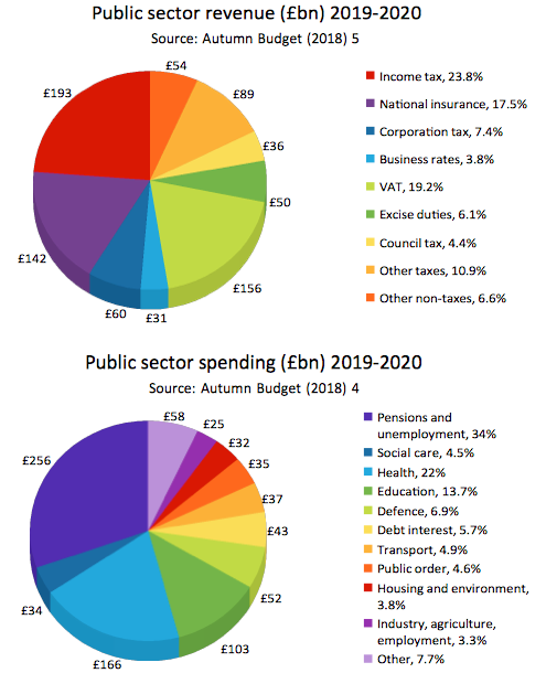 Source: Autumn Budget (2018) pages 4-5